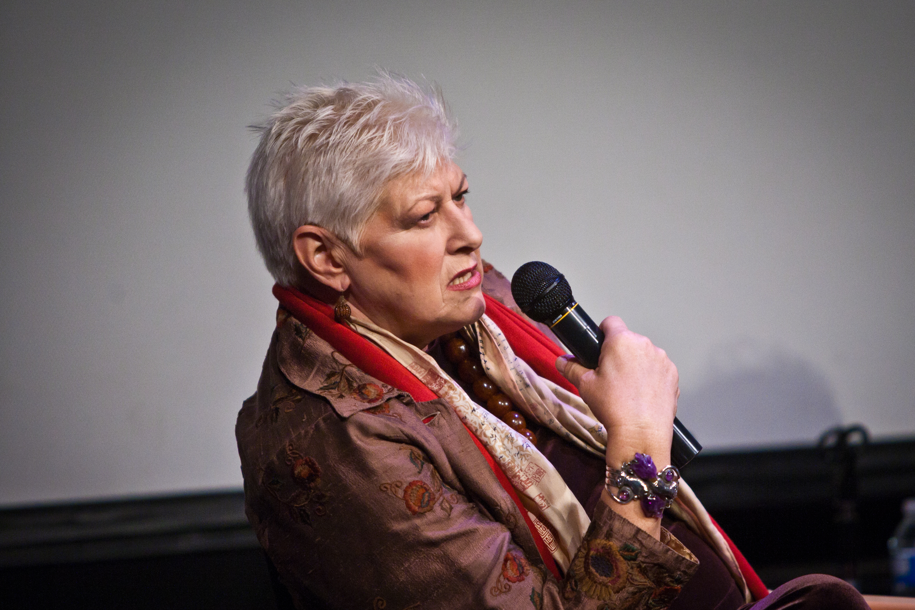 Former Saturday Night Live writer Anne Beatts and Mad Men writer and producer Maria Jacquemetton joined VFS Writing for Film & Television students for a special panel discussion. Find out more about VFS's one-year Writing for Film & Television program at